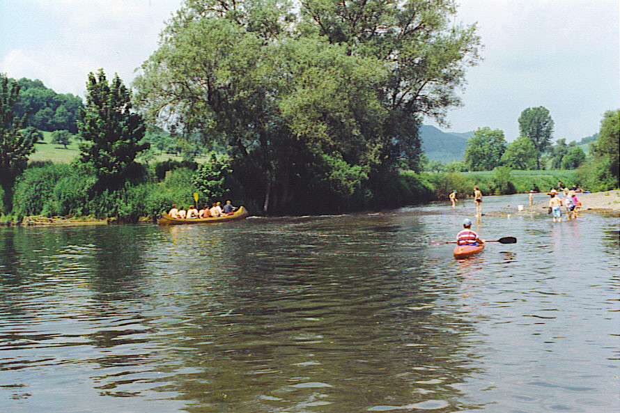 Confluance of the rivers Our (top right) and Sûre near Wallendorf